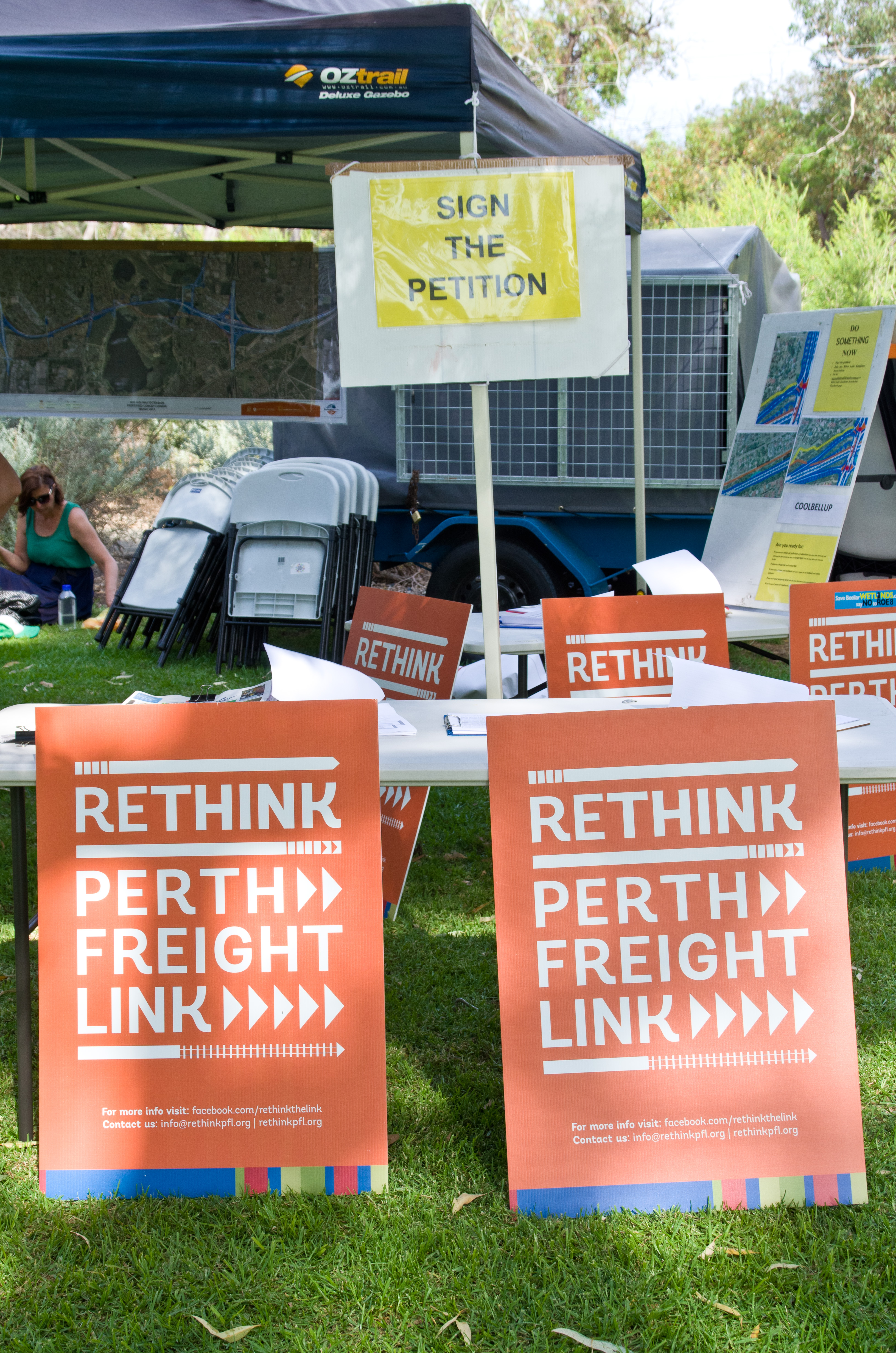 Protest against the Roe 8 / Perth Freight link proposal